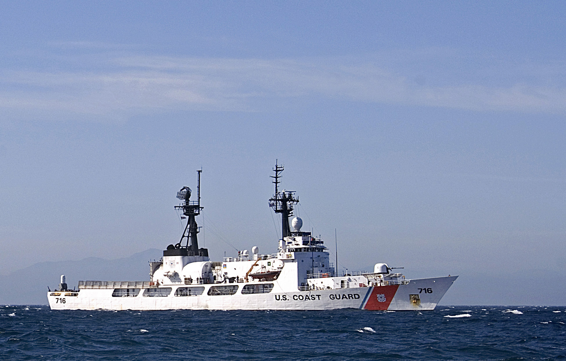 MEDITERRANEAN SEA (Aug. 11, 2008) The U.S. Coast Guard Cutter USCG Dallas (WHEC 716) leaves Gibraltar. Dallas, a 378-foot high endurance cutter based in Charleston, S.C., is on a four-month deployment supporting maritime safety and security in west and central Africa. (U.S. Coast Guard photo by Petty Officer 2nd Class Lauren Jorgensen/Released)